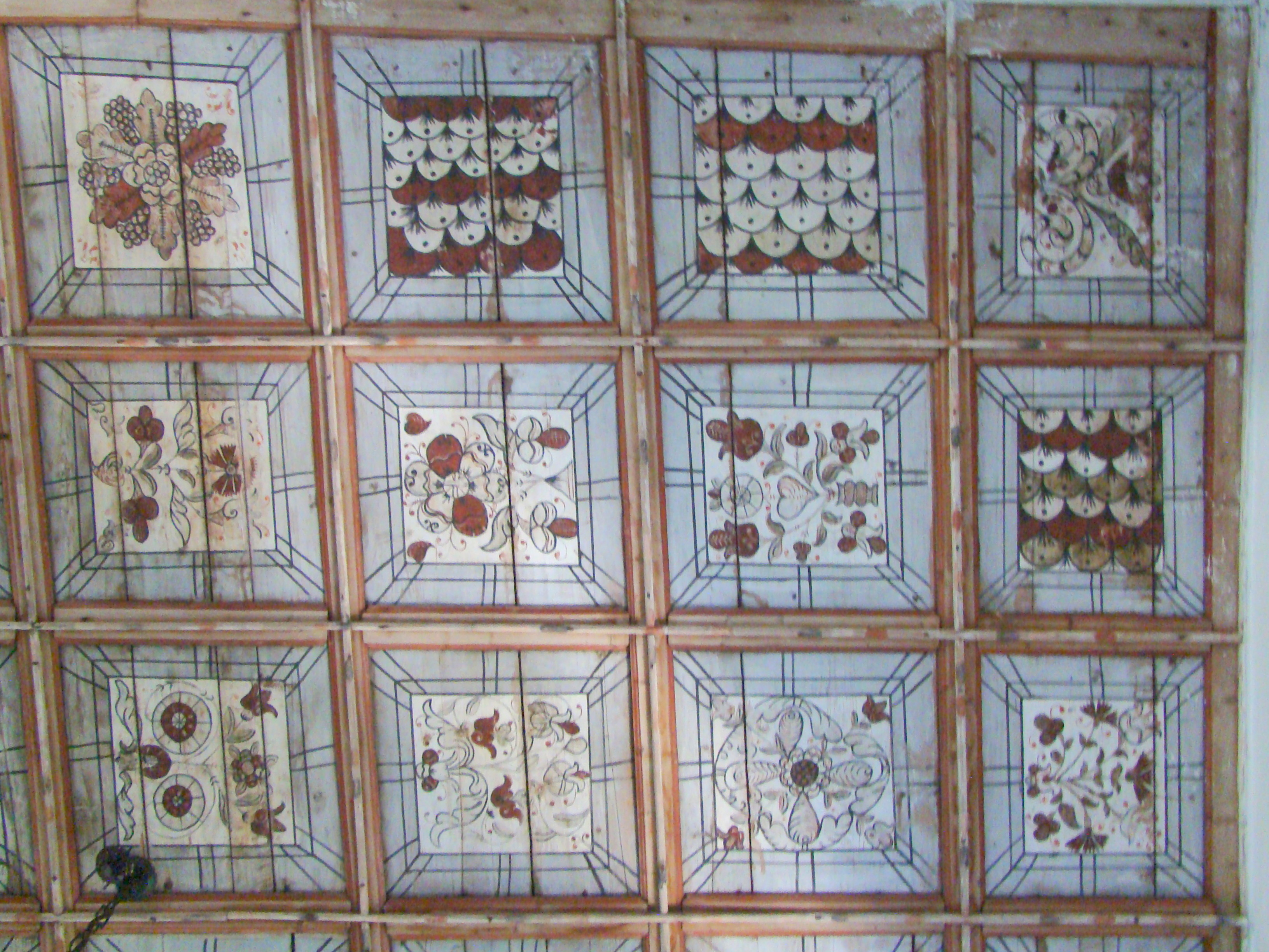 Reformed church in Feliceni, Harghita county, Romania